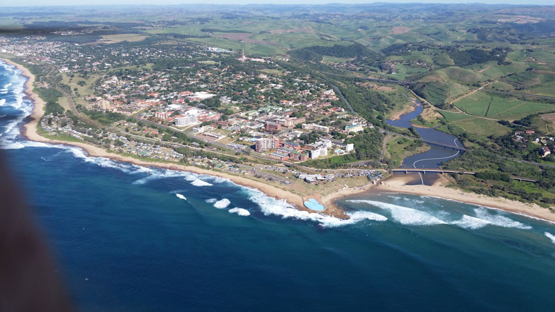 A aerial view of Scottburgh beach front by microlight